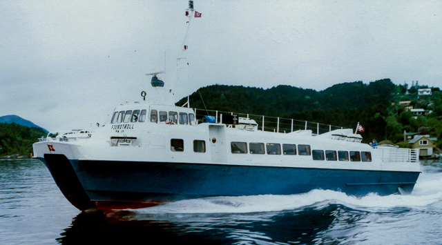 MS Fjordtroll in Alverstraumen, Lindås in 1983.